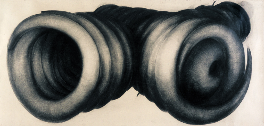 Jiří Kornatovský: Forget everything (1990-1997), drawing, graphite on cardboard, 220 x 460 cm, GASK collection, Czech Republic